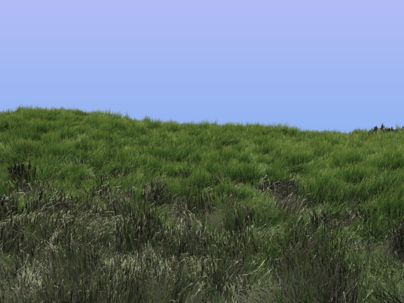 A rendered plane of grass made in blender with the hair particle system.